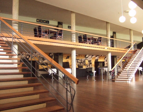 Beethovenhalle, conference and event hall in Bonn.